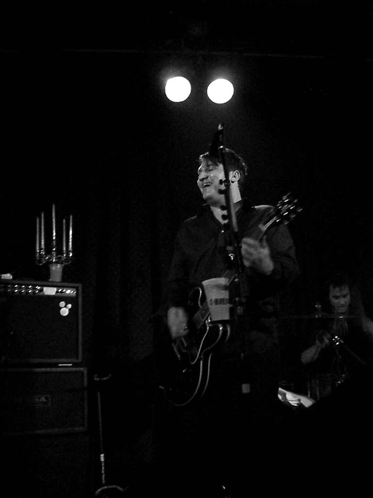 The Twilight Singers performing in Orlando, 2006